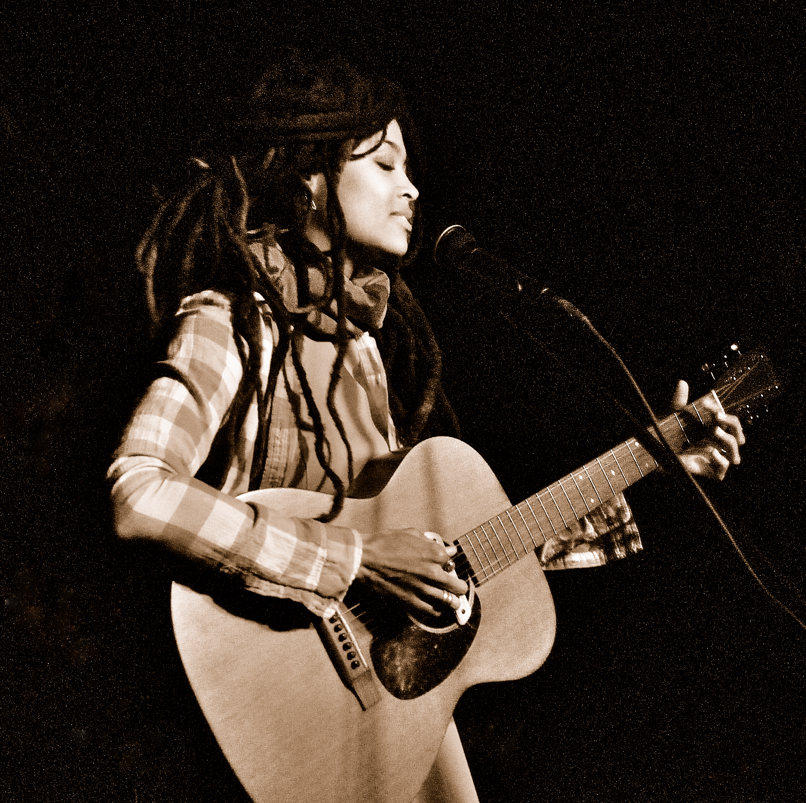 Photo of Valerie June taken at The Blind Pig in Ann Arbor, Michigan.